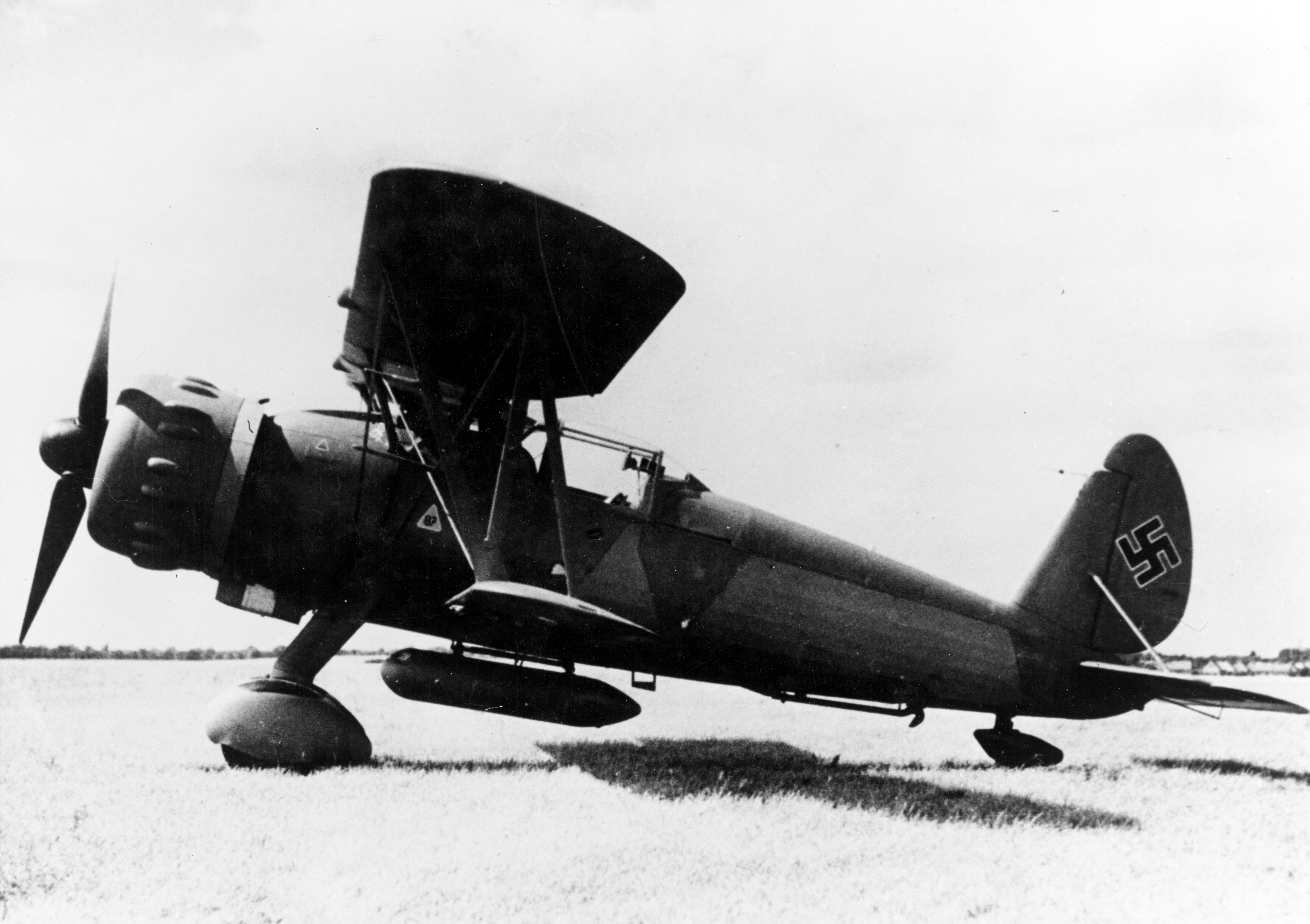 A German Arado Ar 197, circa in 1937. The Arado Ar 197 was a single-engine prototype carrier-based fighter. Although three prototypes were flown in 1937, the design did not meet the requirements of the specification and so was rejected.